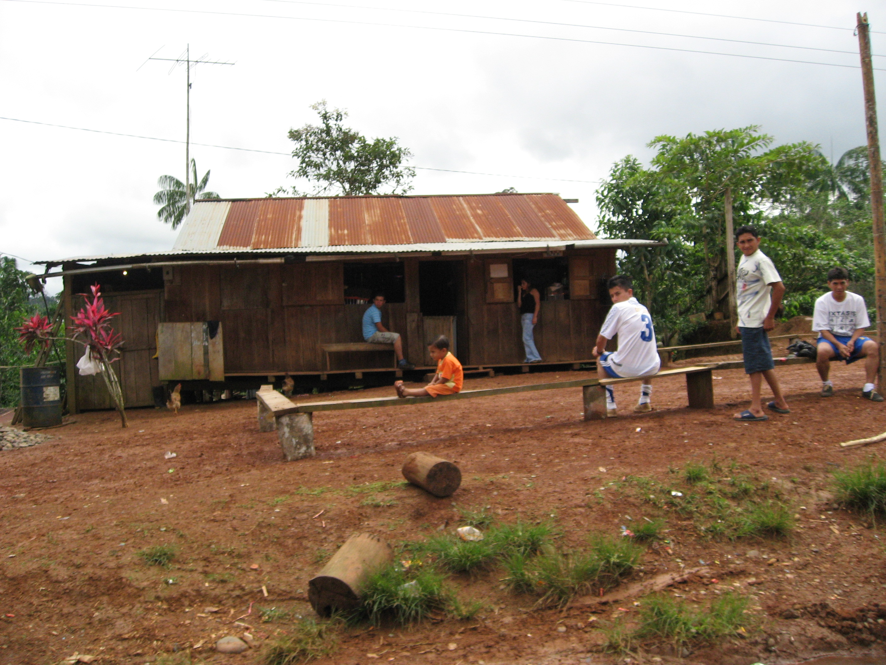 House and children in a Huaorani village in Ecuador.